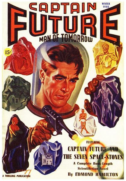 Original cover of pulp magazine, CF41Wint.